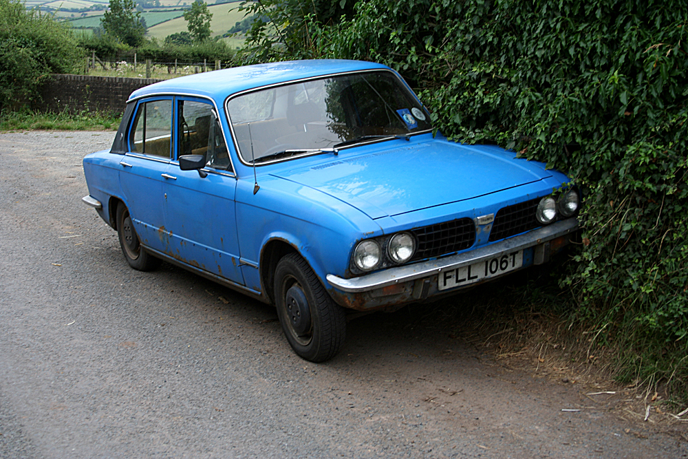 Triumph Dolomite 1500HL from late '78 / early '79. One of the last of the line. Really a rear-wheel-drive cost-cutting exercise on the visually similar Triumph 1500 (ditching the not-very-good front-drive setup of that car for component commonality with the "real" Dolomite 1725 / Sprint). With some more development and better engines the Dolomite could have given the then-new BMW 3-series a run for its money (the Dolomite Sprint gave it a good go), but sadly it was not to be. The once proud Triumph name left not with a bang, but with a whimper, as a rather pathetic re-badged Honda aka the Acclaim, of which it deserved, and got, none at all.